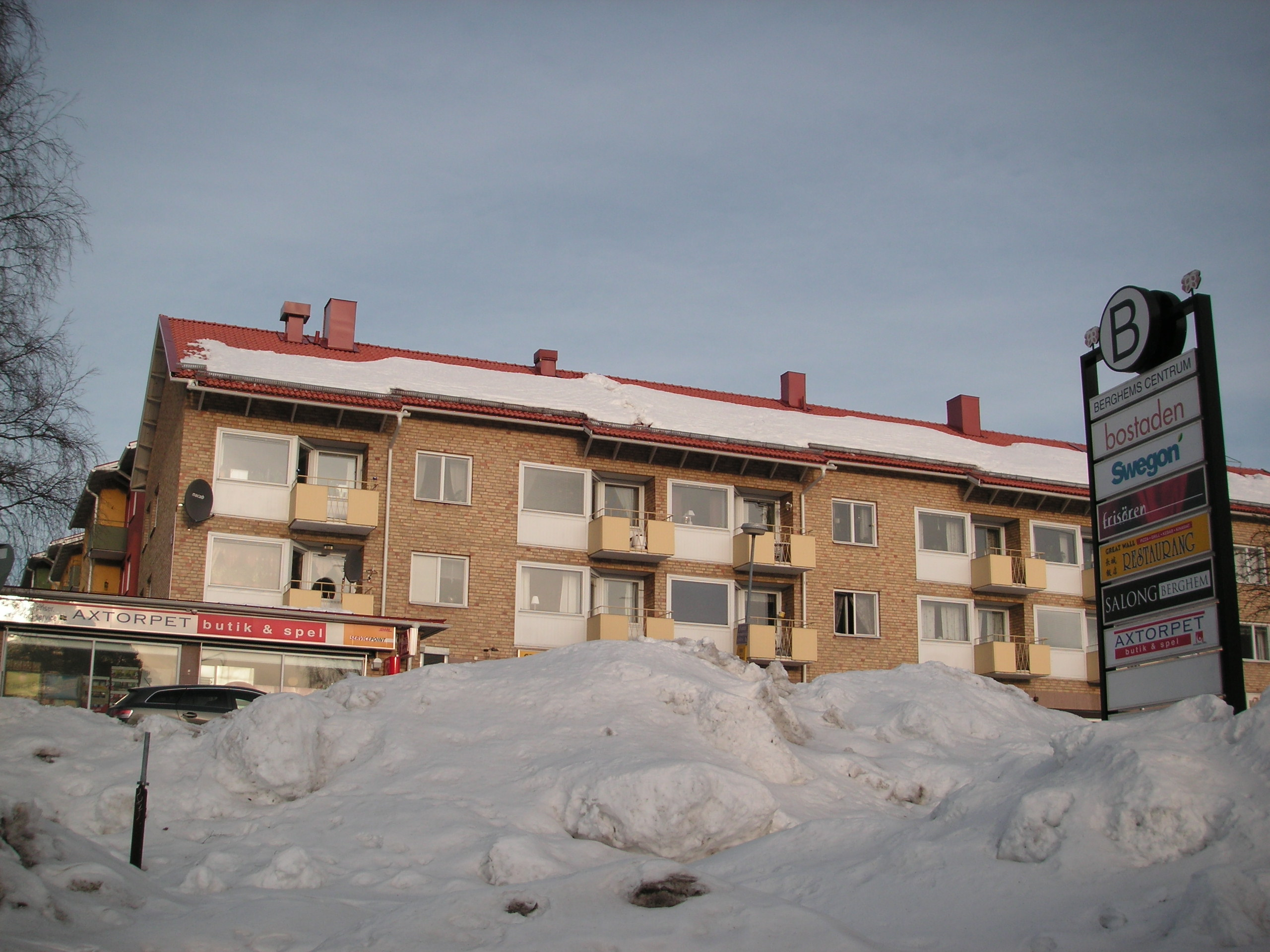 Berghems center, Umeå, Sweden.